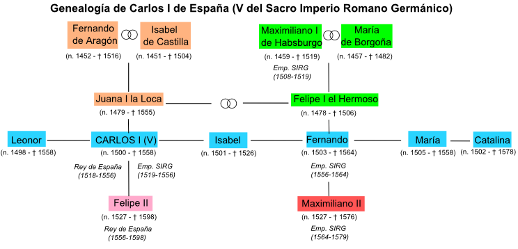 Genealogy of Charles V, Holy Roman Emperor and I of Spain